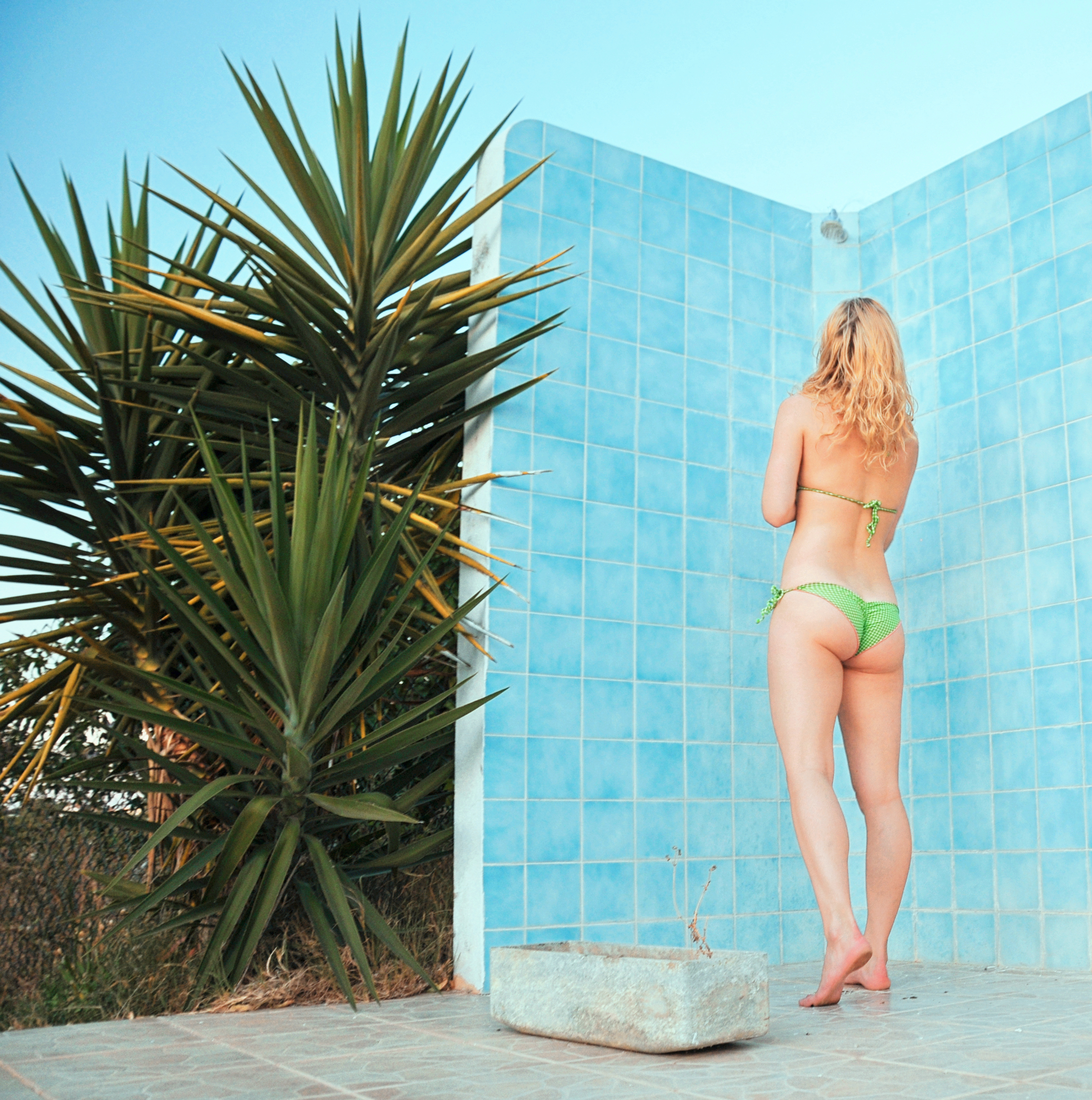 shower out